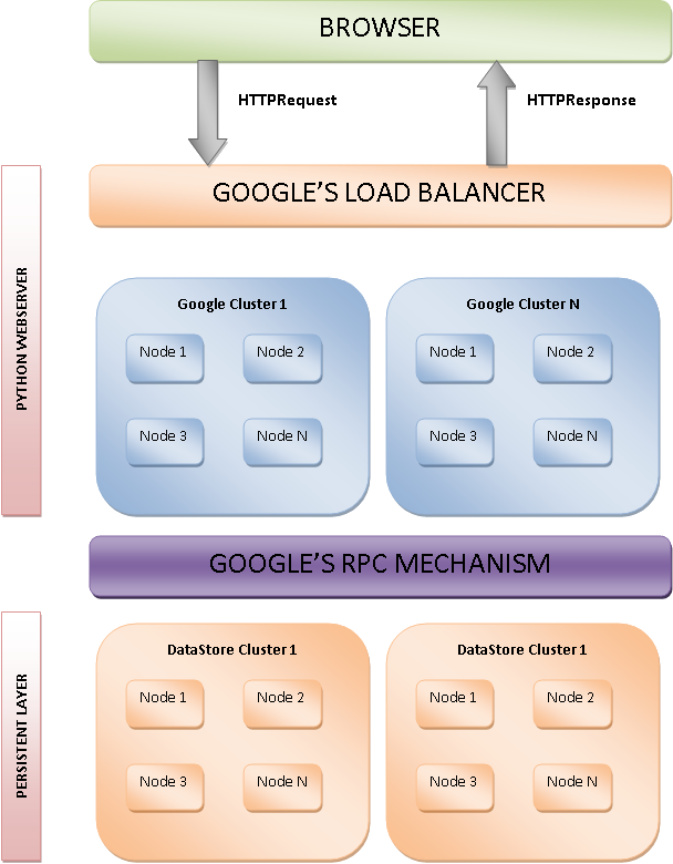 Architecture of the Google App Engine.